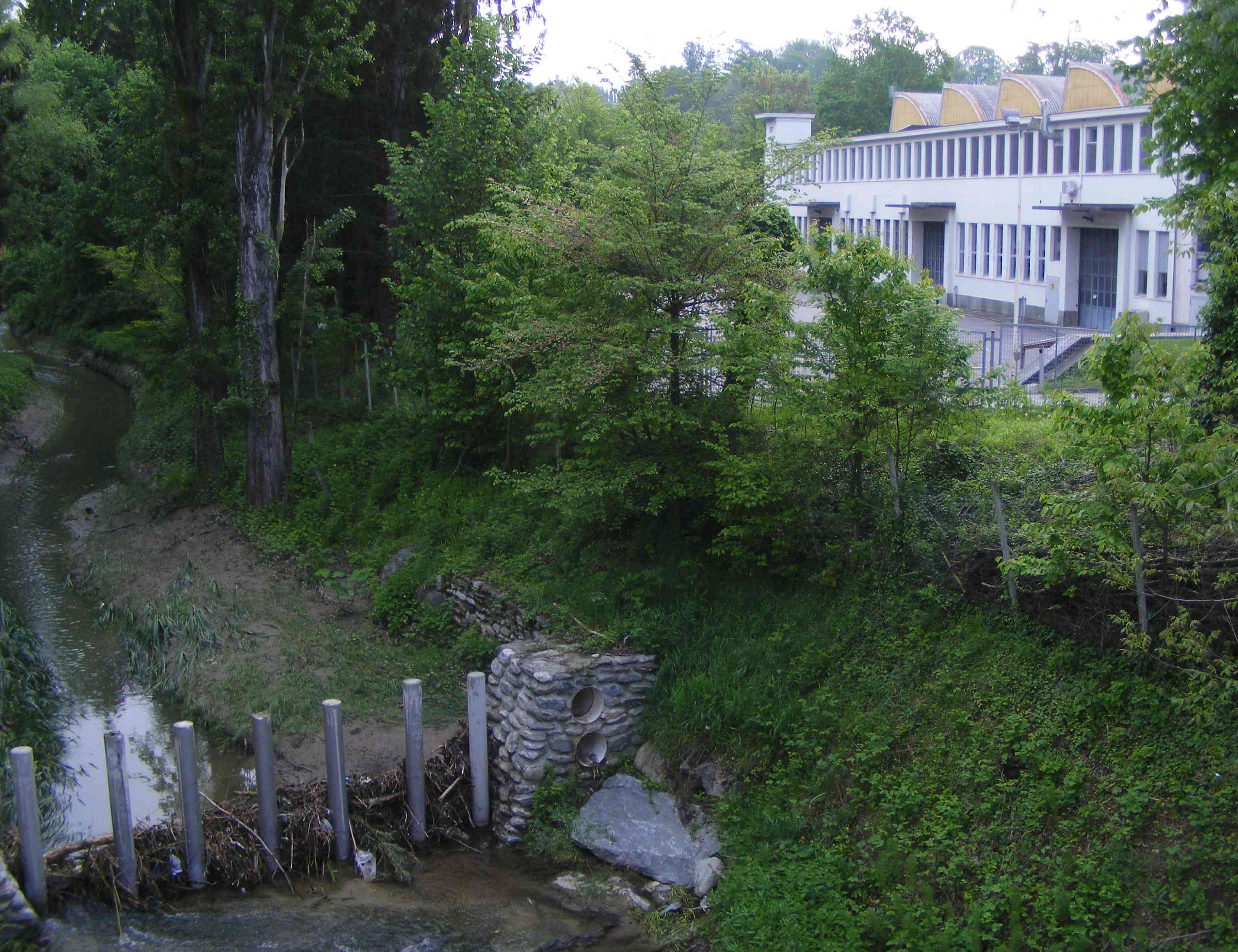 Tepice creek and an industrial plant in Chieri (TO, Italy)